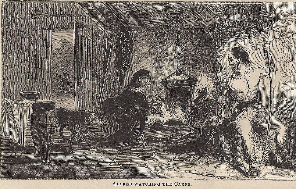 Engraving depicting the episode in which Alfred the Great, whose identity was not known to the woman he was with, was supposed to watch her cakes. He let them get burnt, she reproached him and he accepted it.